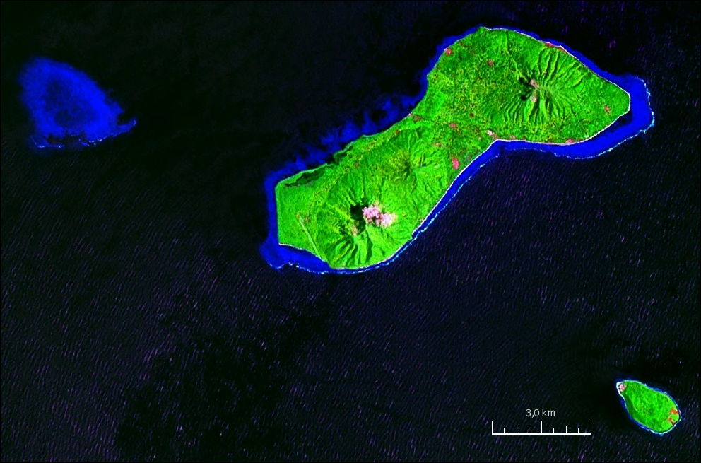 Geocover 2000 Satellite image of Émaé Island, Vanuatu, Pacific Ocean